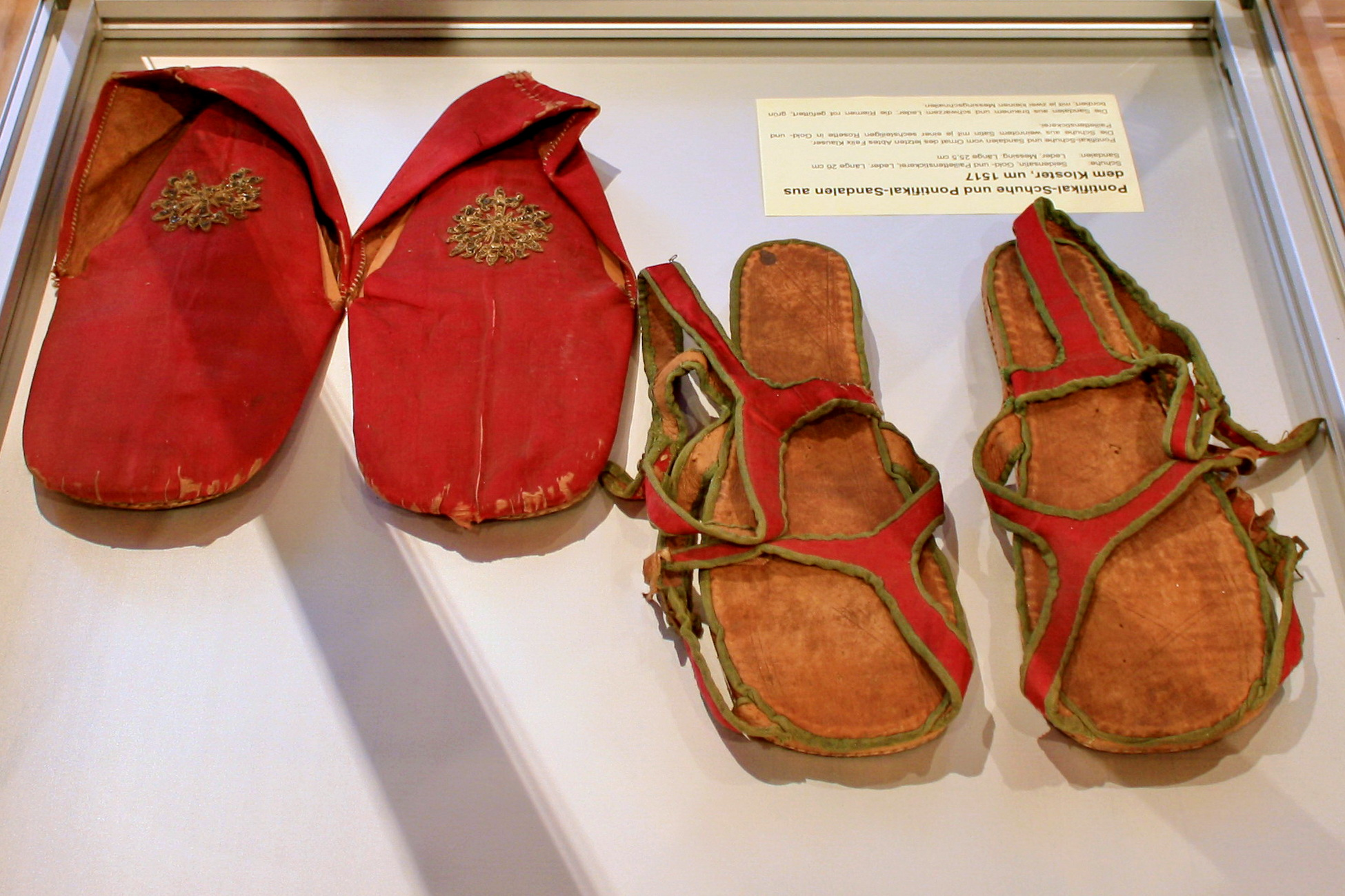 Rüti (ZH) : Treasury of the former Premonstratensian Abbey, Ortsmuseum (museum of local history) in the Amthaus Rüti (Bailiff's house).